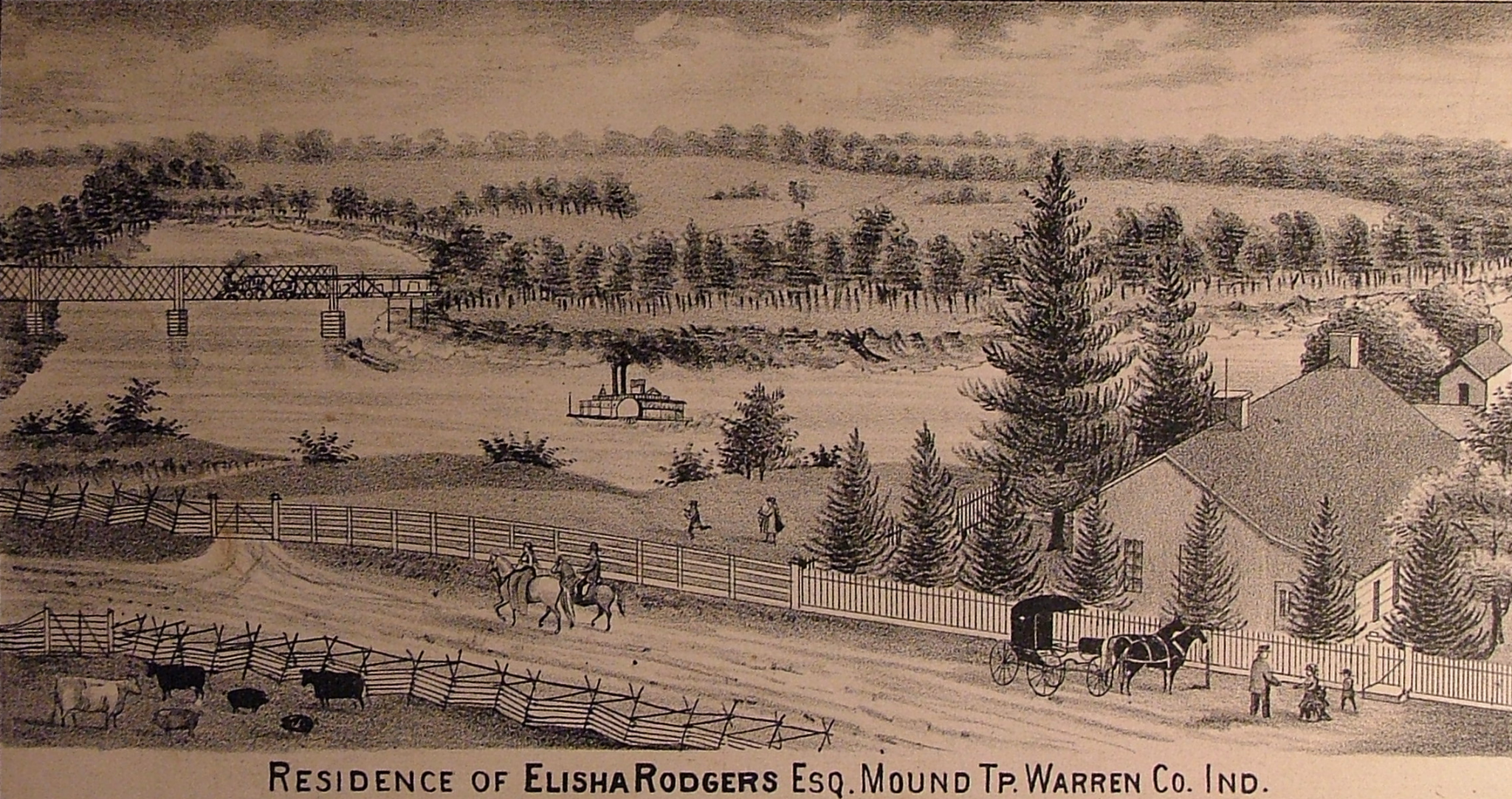 A drawing of the residence of Elisha Rodgers in the now-extinct community of Baltimore, Indiana, looking generally northeast. In the background, a bridge carrying the Pumpkin Vine Railroad crosses the Wabash River.